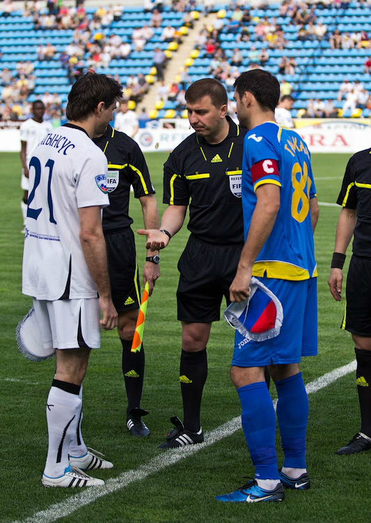 Moldovan footballers Valeriu Catînsus (left) and Alexandru Gațcan (right) playing one against other in Russian championship, for FC Shinnik and FC Rostov respectively, on 18.05.2012